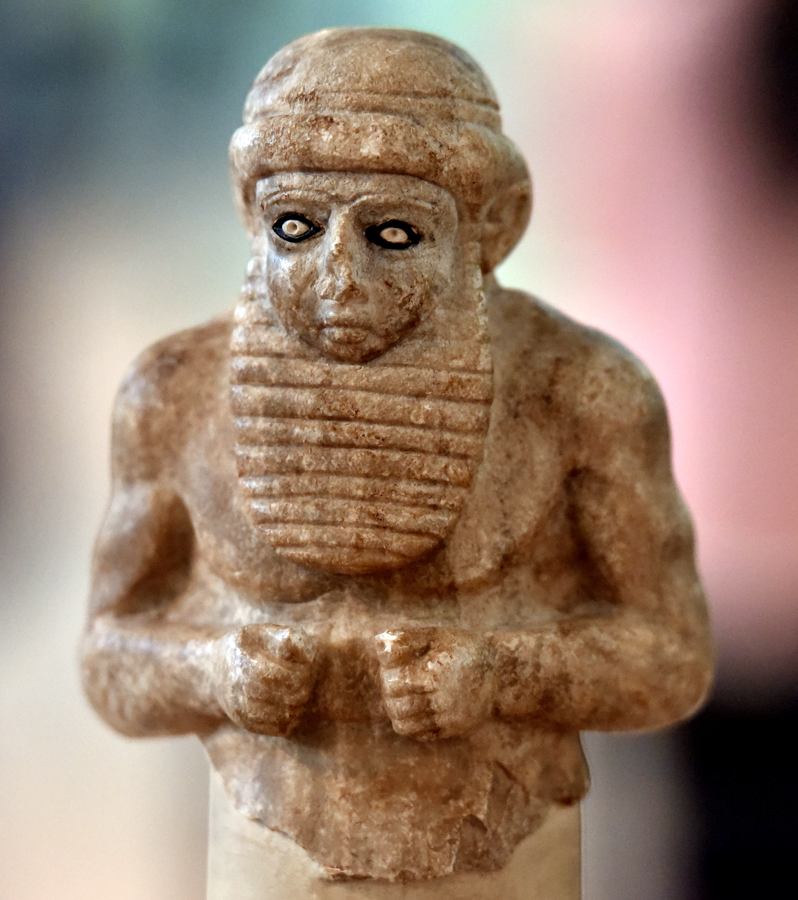 The upper torso of this grey alabaster statue of a male priest was found inside a pottery vessel in the ancient cite of Uruk by a German archaeological team from the German Oriental Society in 1929-1930 CE. Probably, it was buried after it got broken. Its height is about 21 cm. The man is bearded, bare-chested, and wears a headband. His physique is muscular. The upper limbs are flexed and clutched to the body and the hands are fisted. From Uruk (modern-day Warka), in southern Iraq. Jemdet Nasr period, c. 3000 BCE. On display at the Iraq Museum in Baghdad, Republic of Iraq.